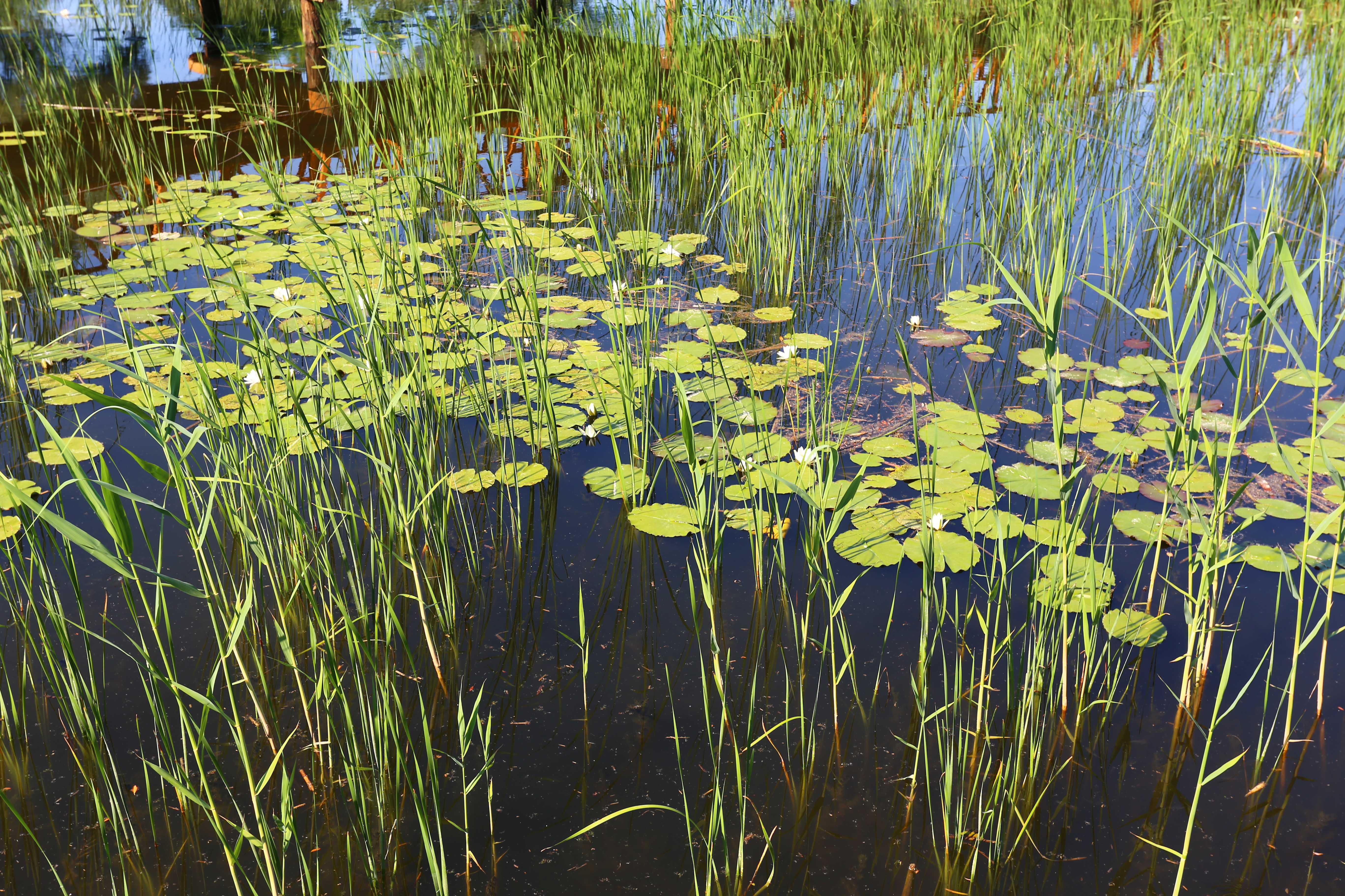 Water lilies and reeds in Kopački rit near Osijek, Croatia